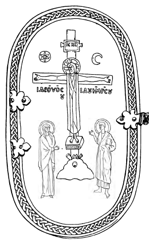 Jesus am Kreuz gekleidet in ein Colobium